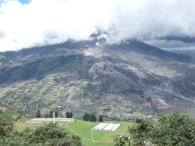 Gabriel Many with another photo, this time showing Cusua, one of the towns that must relocate because of the volcanic activity of Tungurahua. These are the western slopes of Tungurahua.